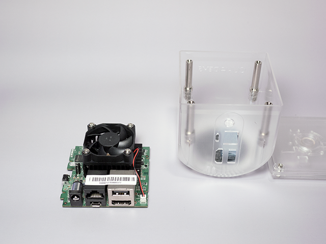 Open in 2mm hex wrench, the housing can be taken out of the substrate easily.